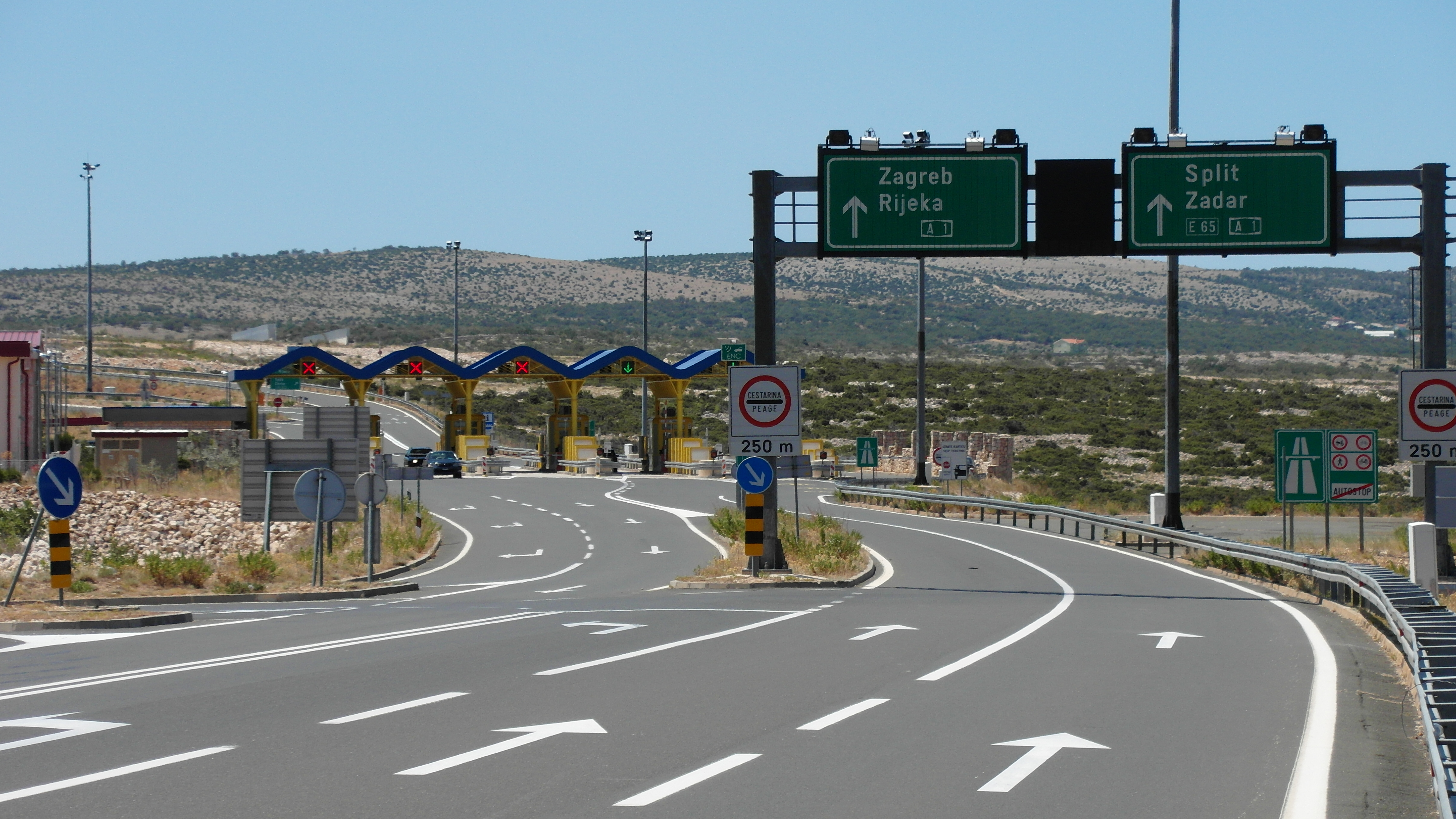 A1 tolls Maslenica.